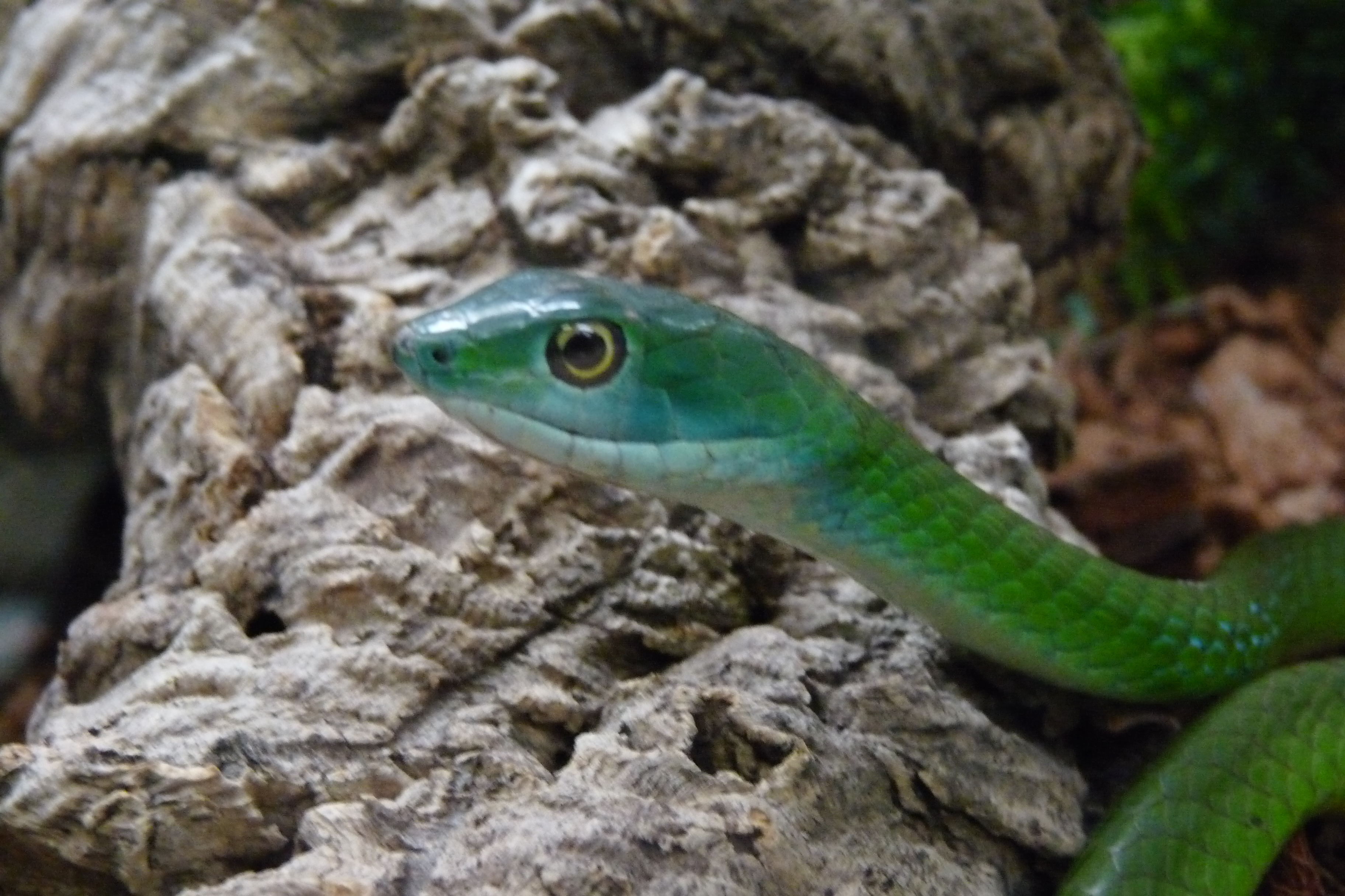 Philothamnus semivariegatus in captivity